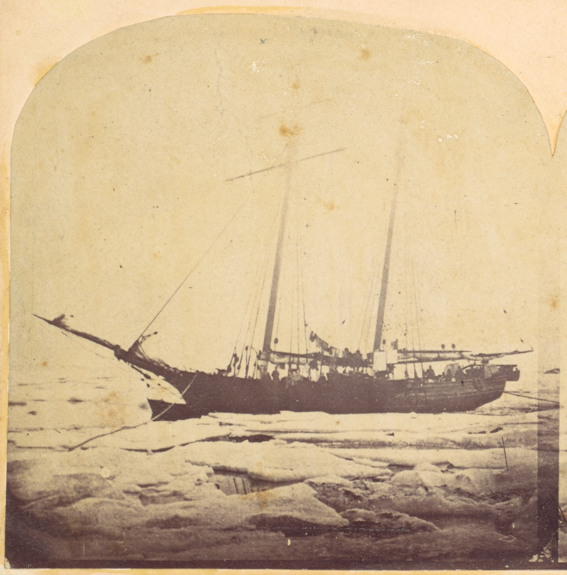 Stereograph; Photographs. Dr. Isaac Israel Hayes. Arctic Expedition 1860. Greenland. Schooner "Spring Hill"[1] The Spring Hill is a fore-and-aft schooner of about 133 tons burthen. Built 1853. The vessel will take in about 50 tons of coal, and the ordinary provisions and ship stores for a two years voyage[2] Ship renamed theUnited States[3]